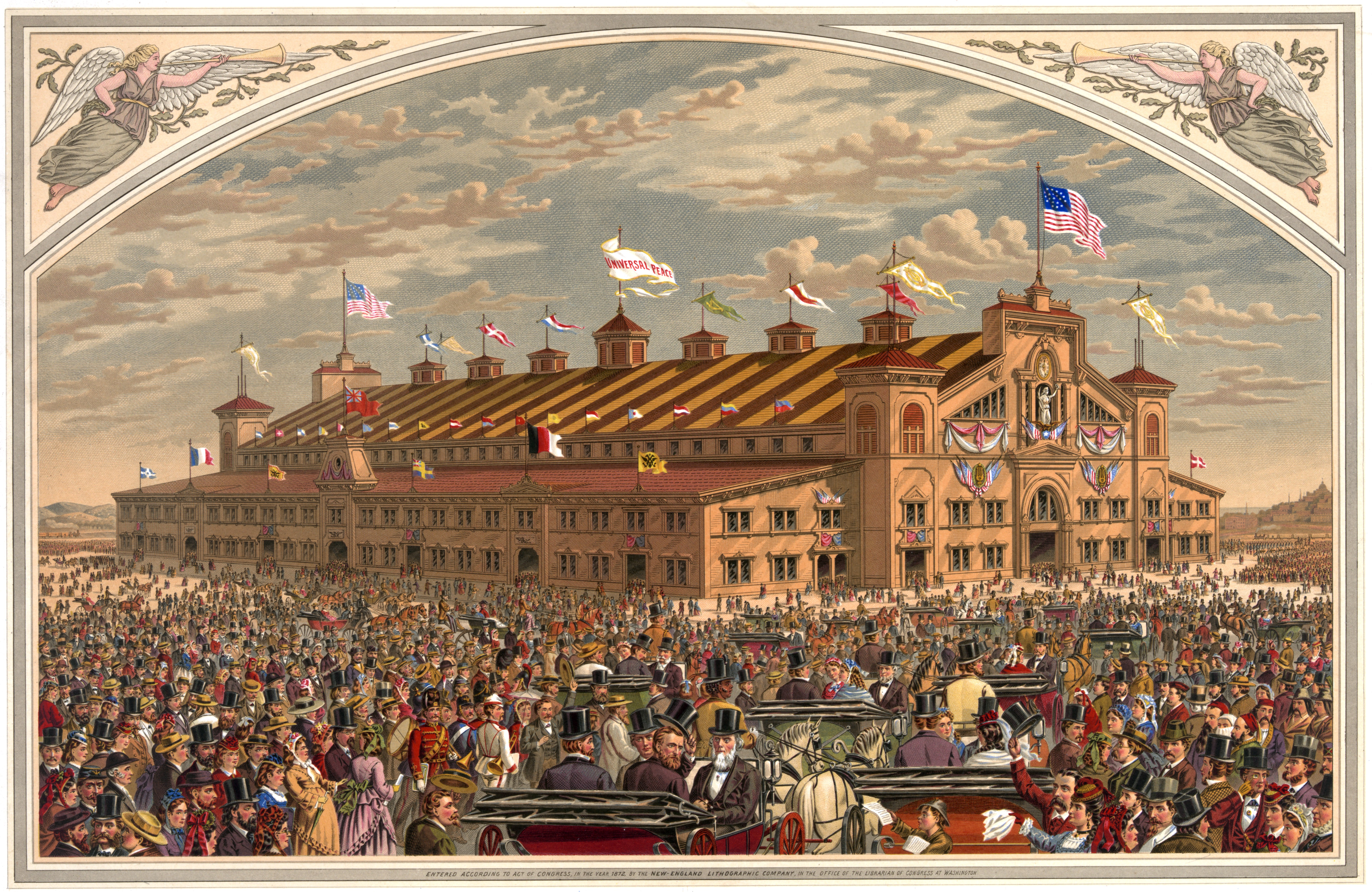 View of the great coliseum for the World's Peace Jubilee and International Musical Festival. MEDIUM: 1 print.